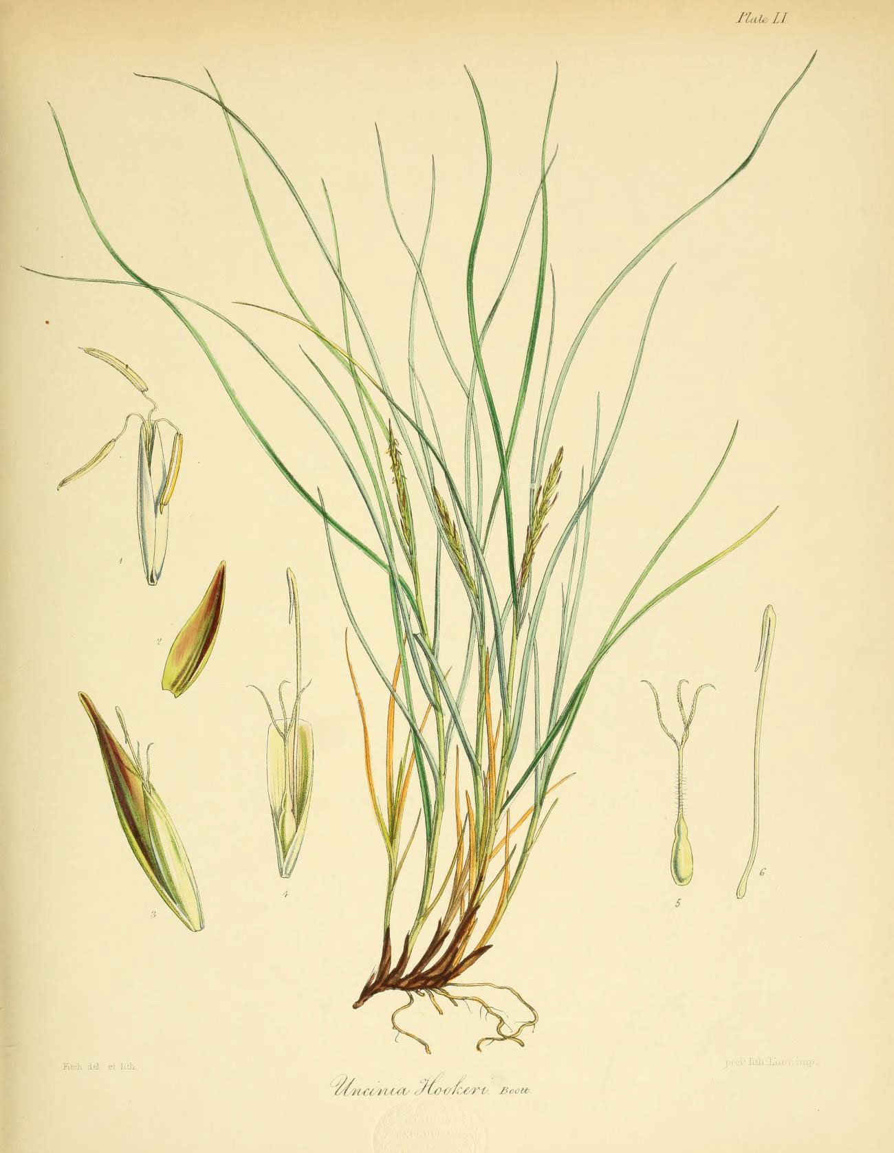 Plate LI. Fitch de. et lith. Uncinia hookeri Boott